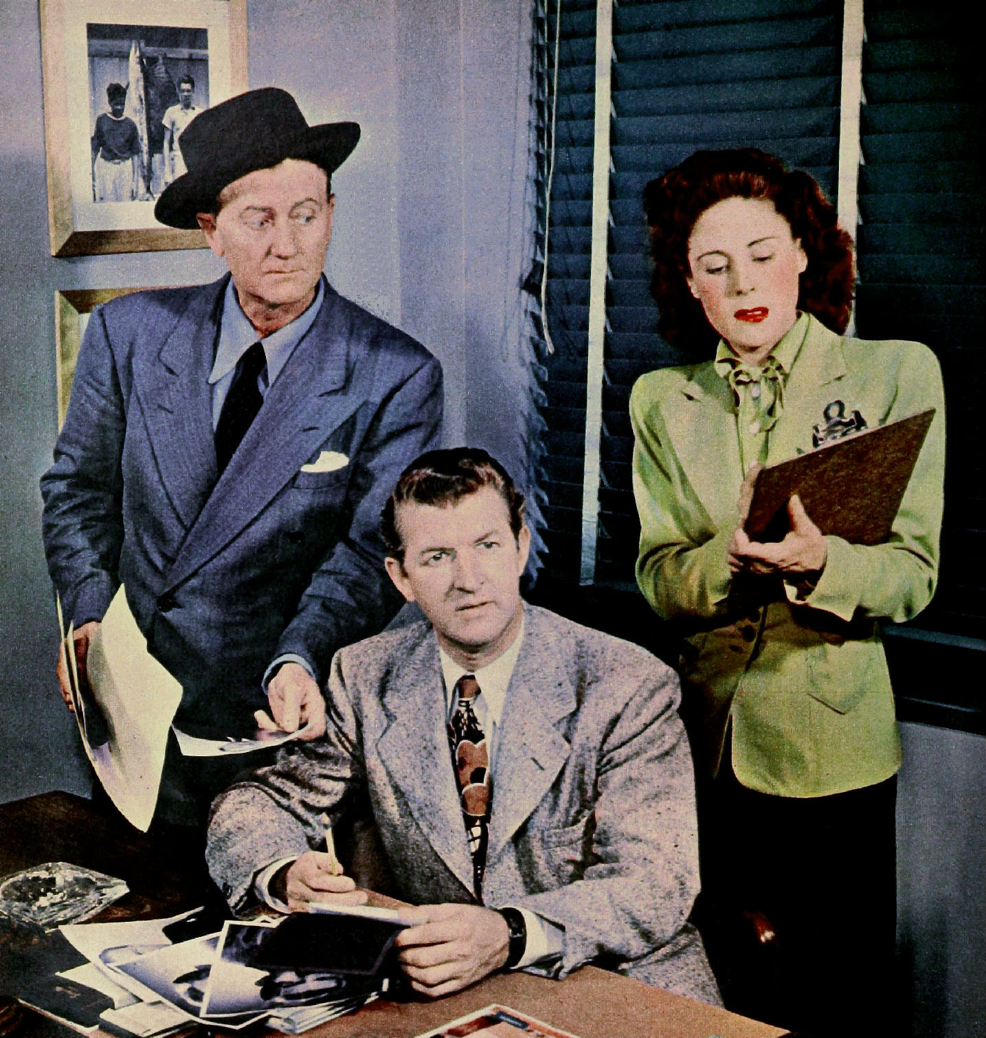 Photo of the cast of the radio program Mr. District Attorney. From left: Len Doyle as Harrington, Jay Jostyn as the District Attorney, Vicki Vola as Edith Miller. A search for renewals was done in periodicals for the years 1974 and 1975. There were no listings for the title "Radio Mirror". There's no evidence of continuing copyright for the magazine.